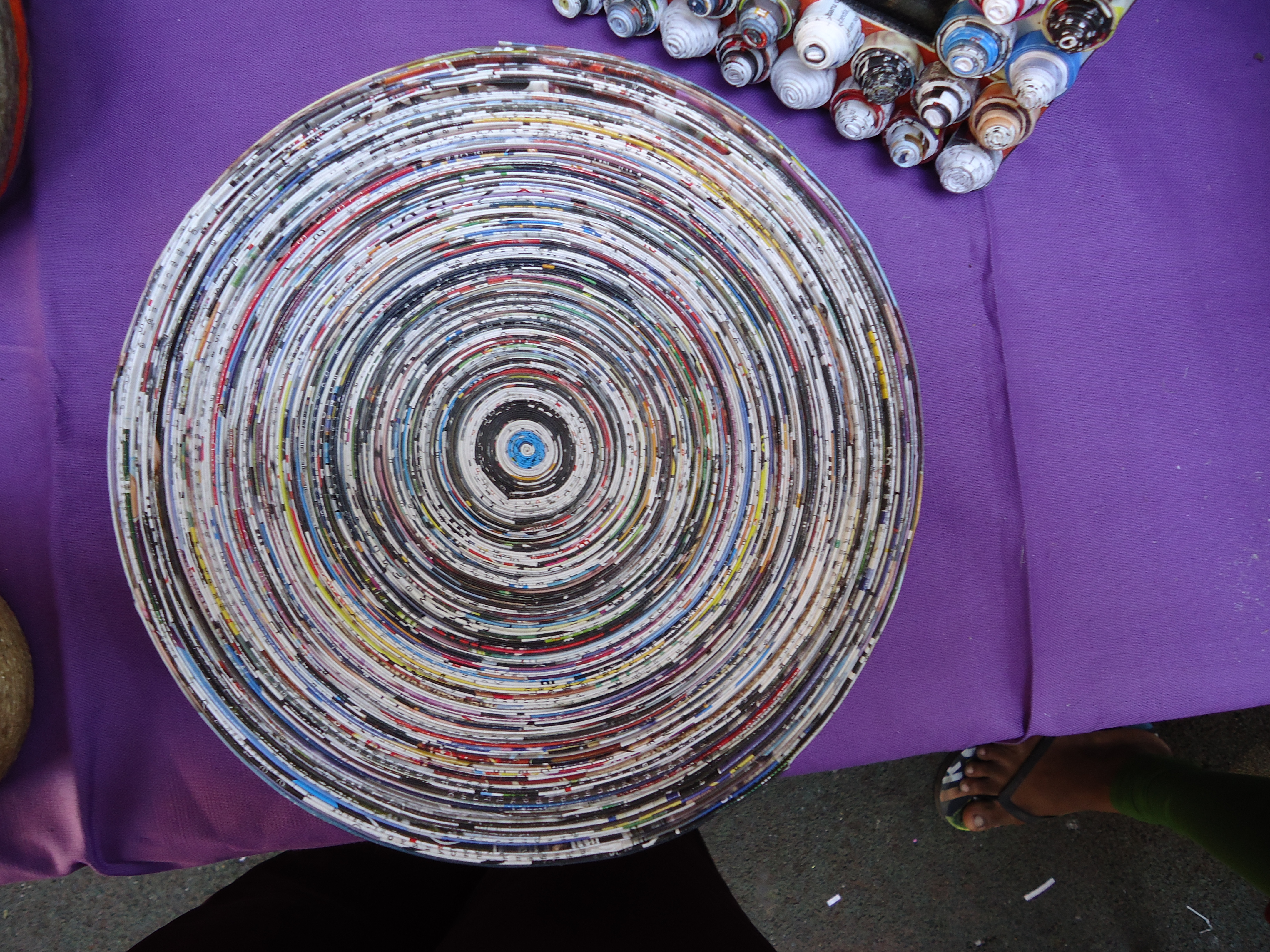 A decorative piece made from waste paper